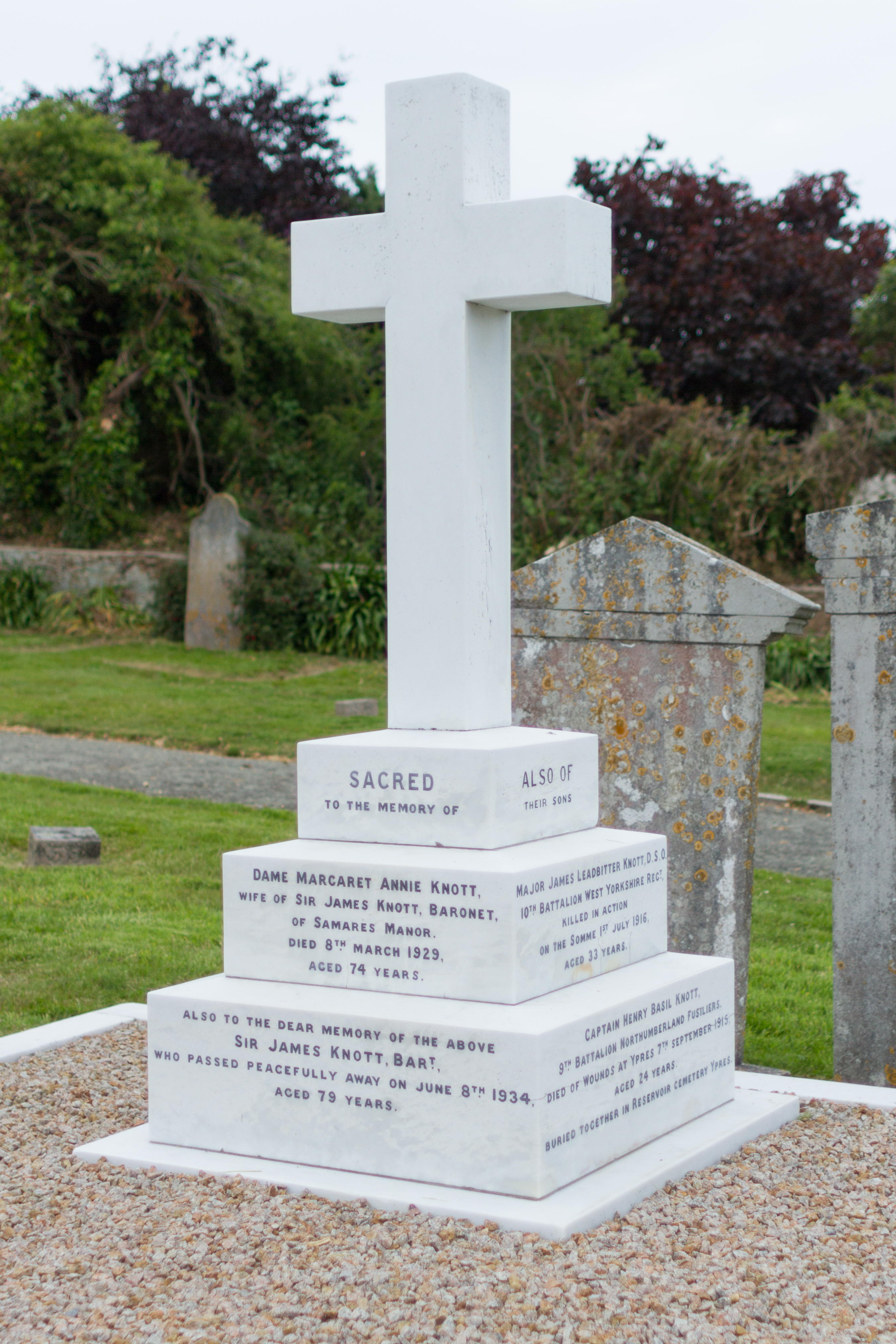 Gravestone of Sir James Knott, 1st Baronet and family in St Clement's churchyard, Jersey.